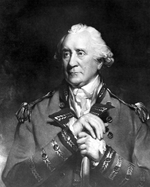 Portrait of Patrick Tonyn, governor of East Florida.